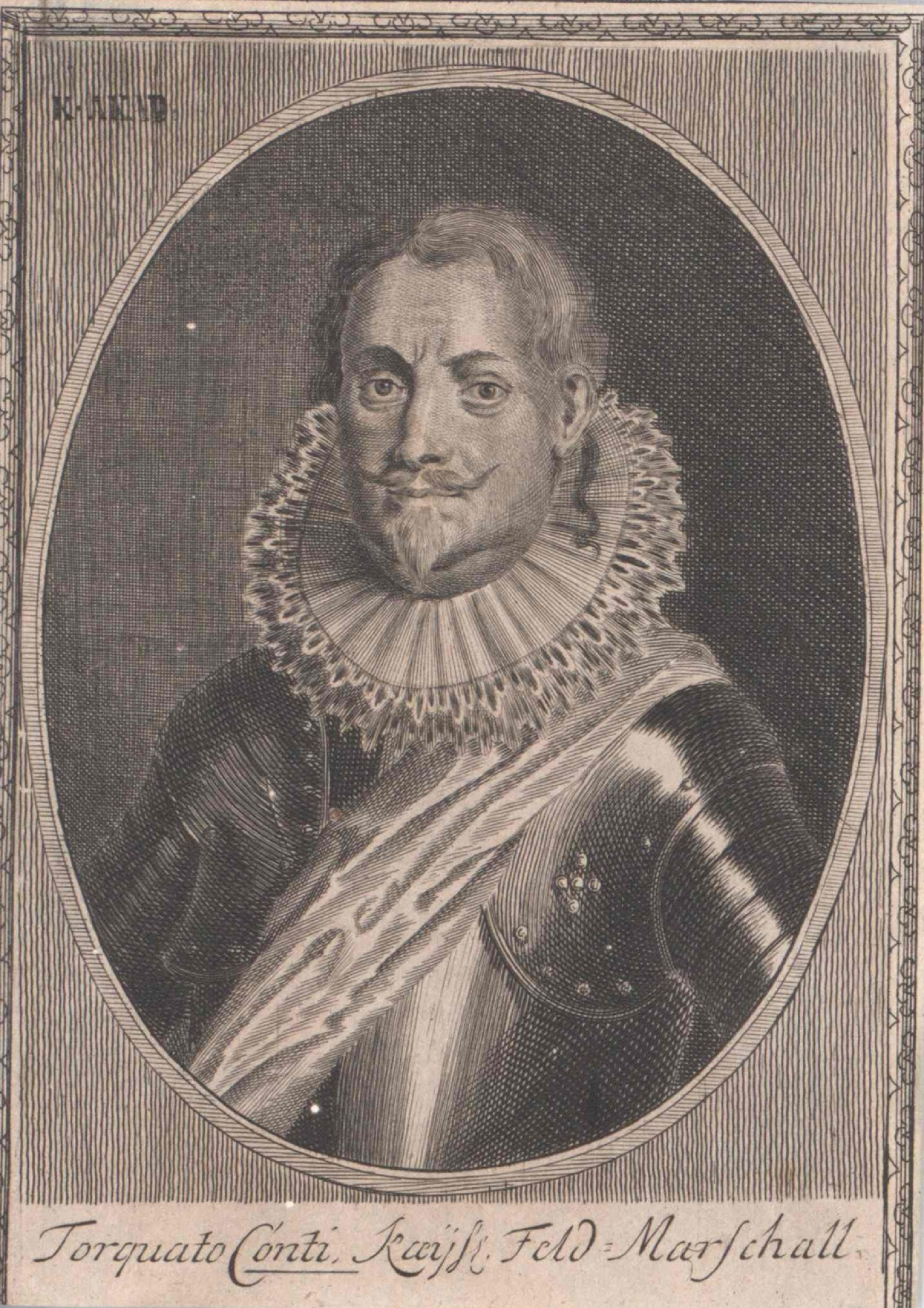 Duke of Guadagnolo